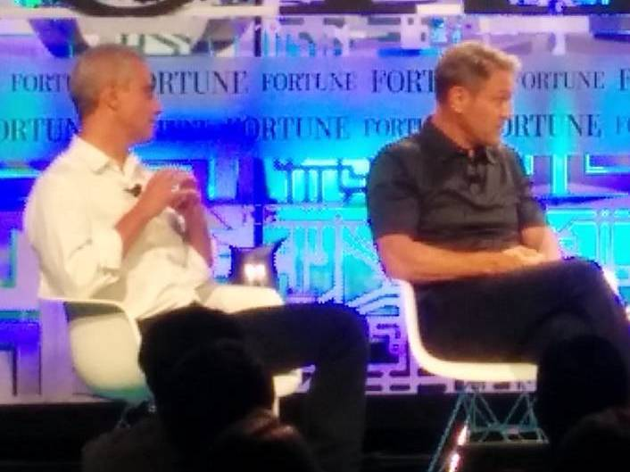 Power panel! Rahm Emanuel and Ari Emanuel talking to Adam Lashinsky at #fortunetech